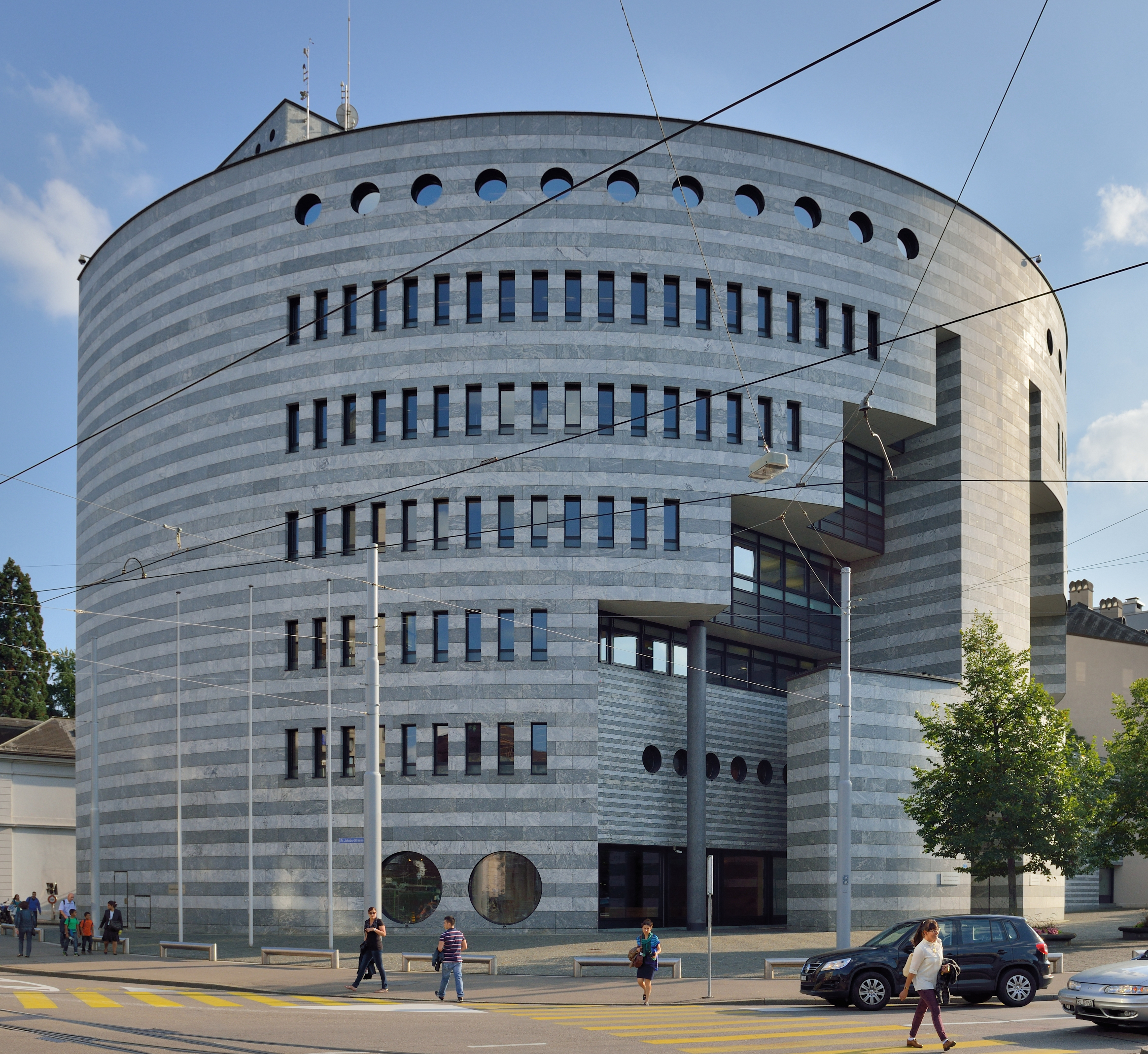 Basel: Botta building